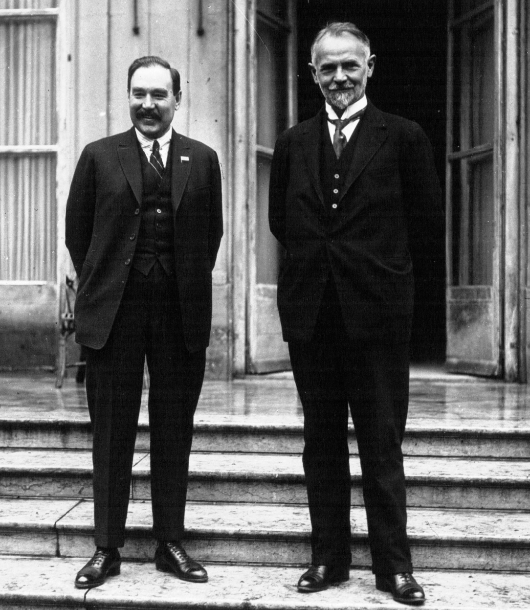 Left to right: Alexander Shliapnikov (1885-1937) and Leonid Krasin (1870-1926) in front of the Soviet embassy in Paris in 1924.